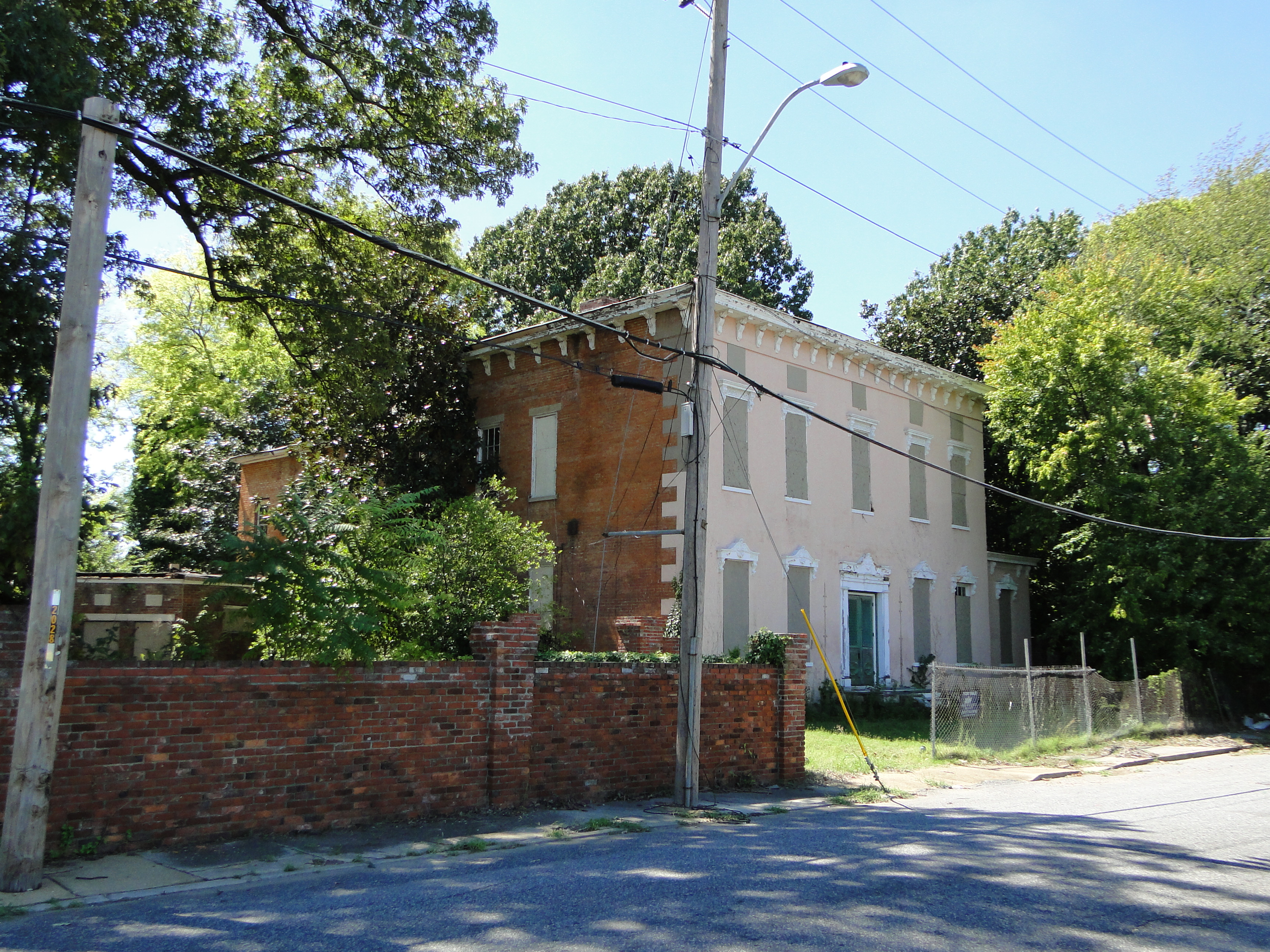 Anderson-Coward House The most recent use of this vacant building was a fine restaurant, known as Justine's.